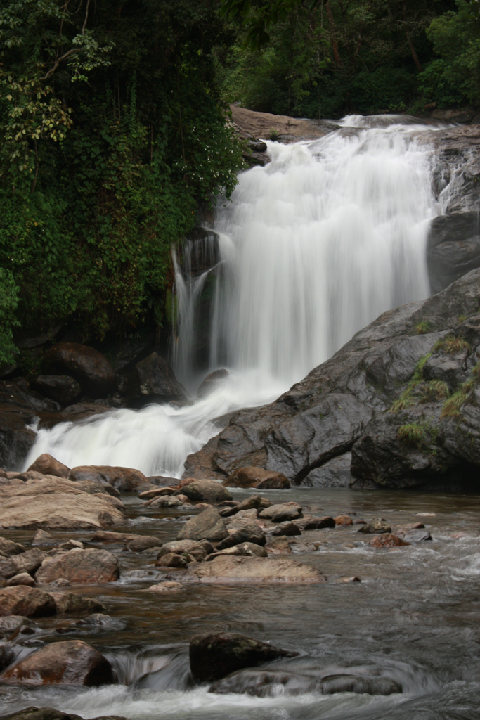 Lukkam waterfalls, Munnar, kerala. Handheld shot. I did not have a tripod that time. Recently purchased one Monfrotto 190XPROB and a 486RC2 ball head!